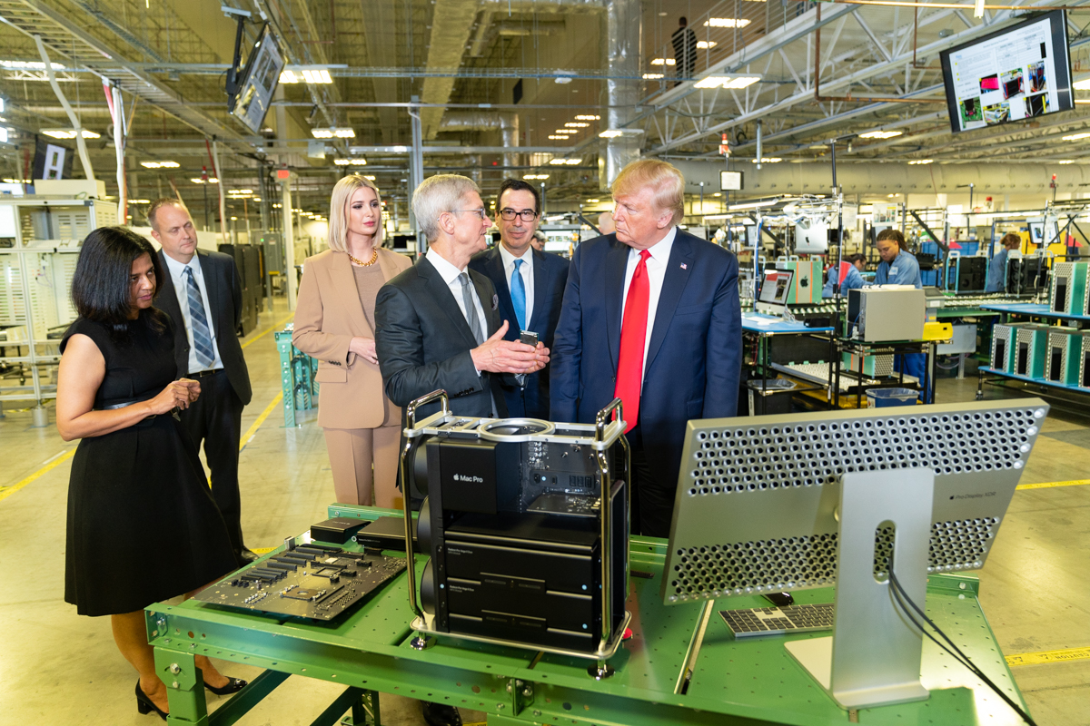 President Donald J. Trump, joined by Secretary of the Treasury Steven Mnuchin and Advisor to the President Ivanka Trump, tours the Apple Manufacturing Plant with Apple CEO Tim Cook Wednesday, Nov. 20, 2019, at Flextronics International LTD-Austin Product Introduction Center. (Official White House Photo by Shealah Craighead)